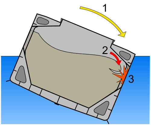 Ship (shifted in the hold) (side cut view)